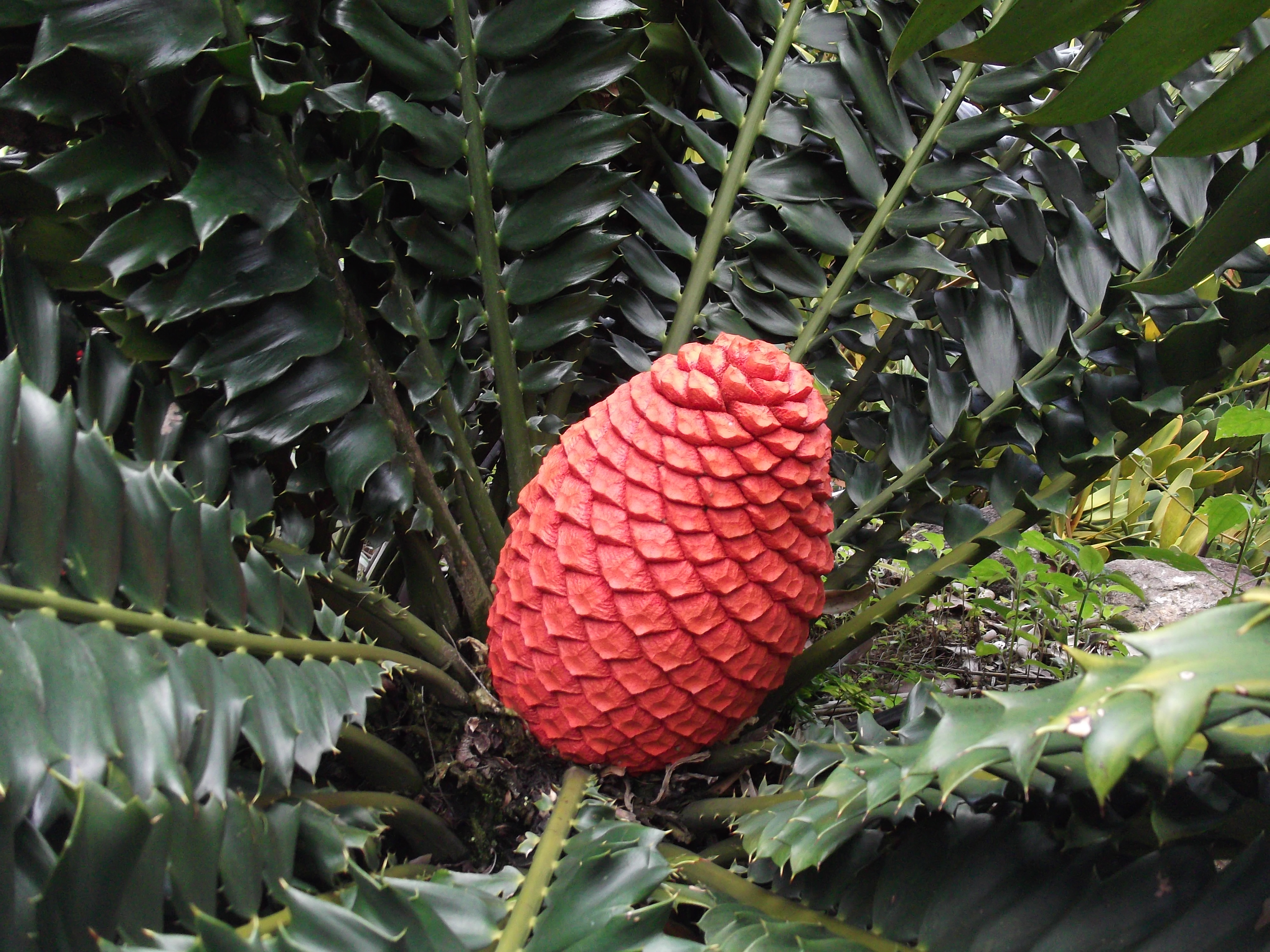 Encephalartos ferox-female-cone-BSI-yercaud-salem-India